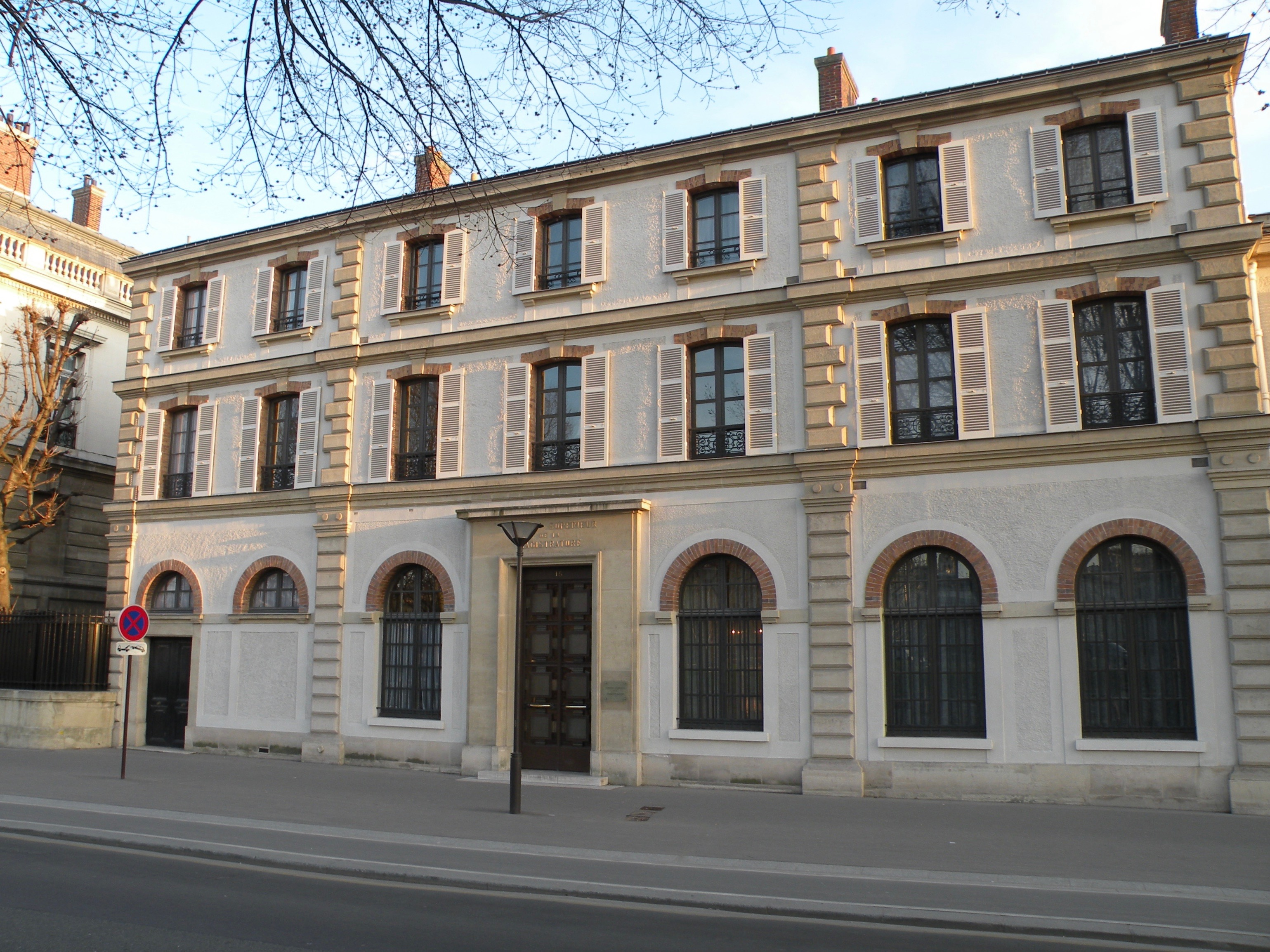 Seat of the Conseil supérieur de la magistrature in Paris.